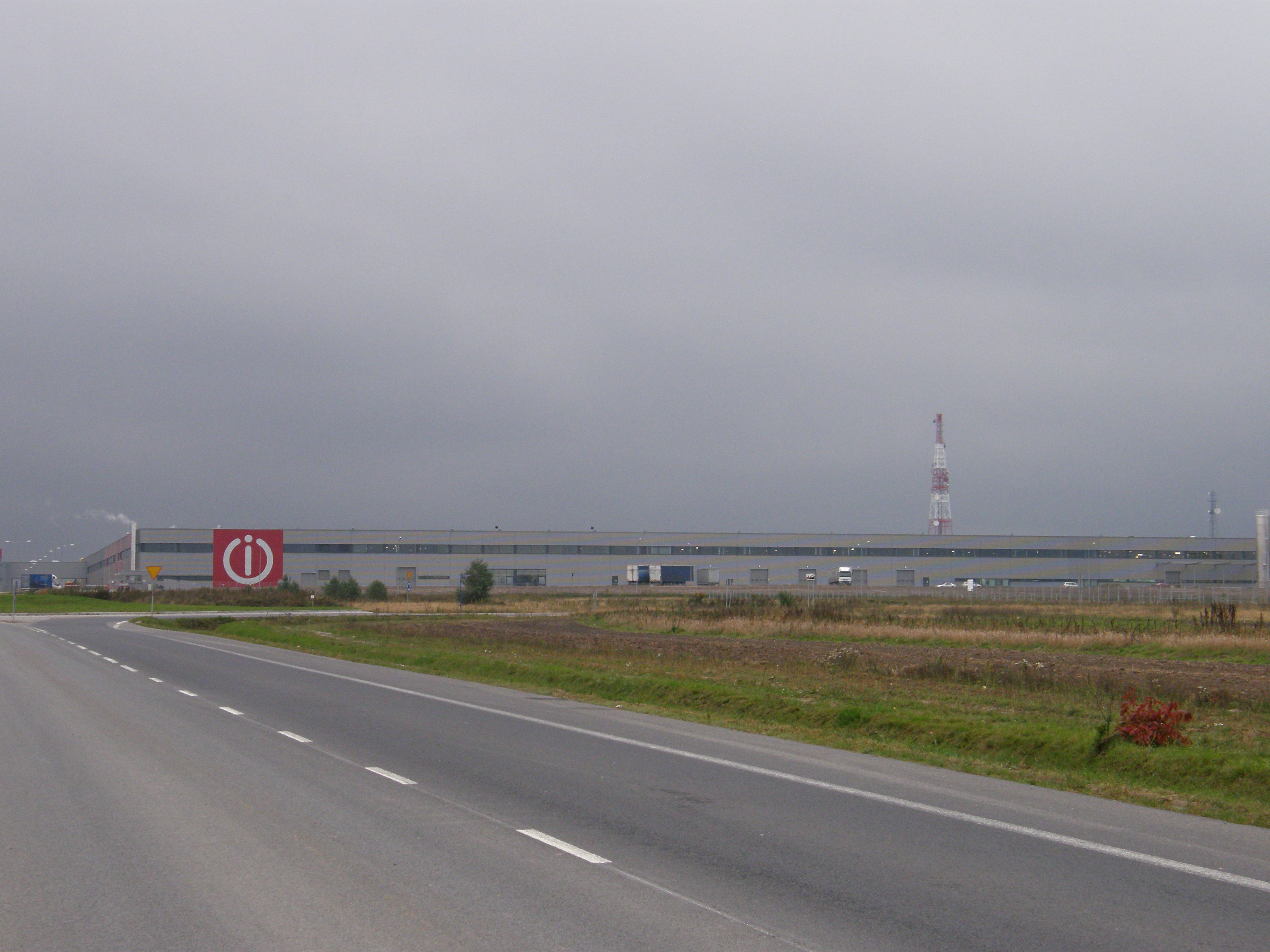 INDESIT in radomsko